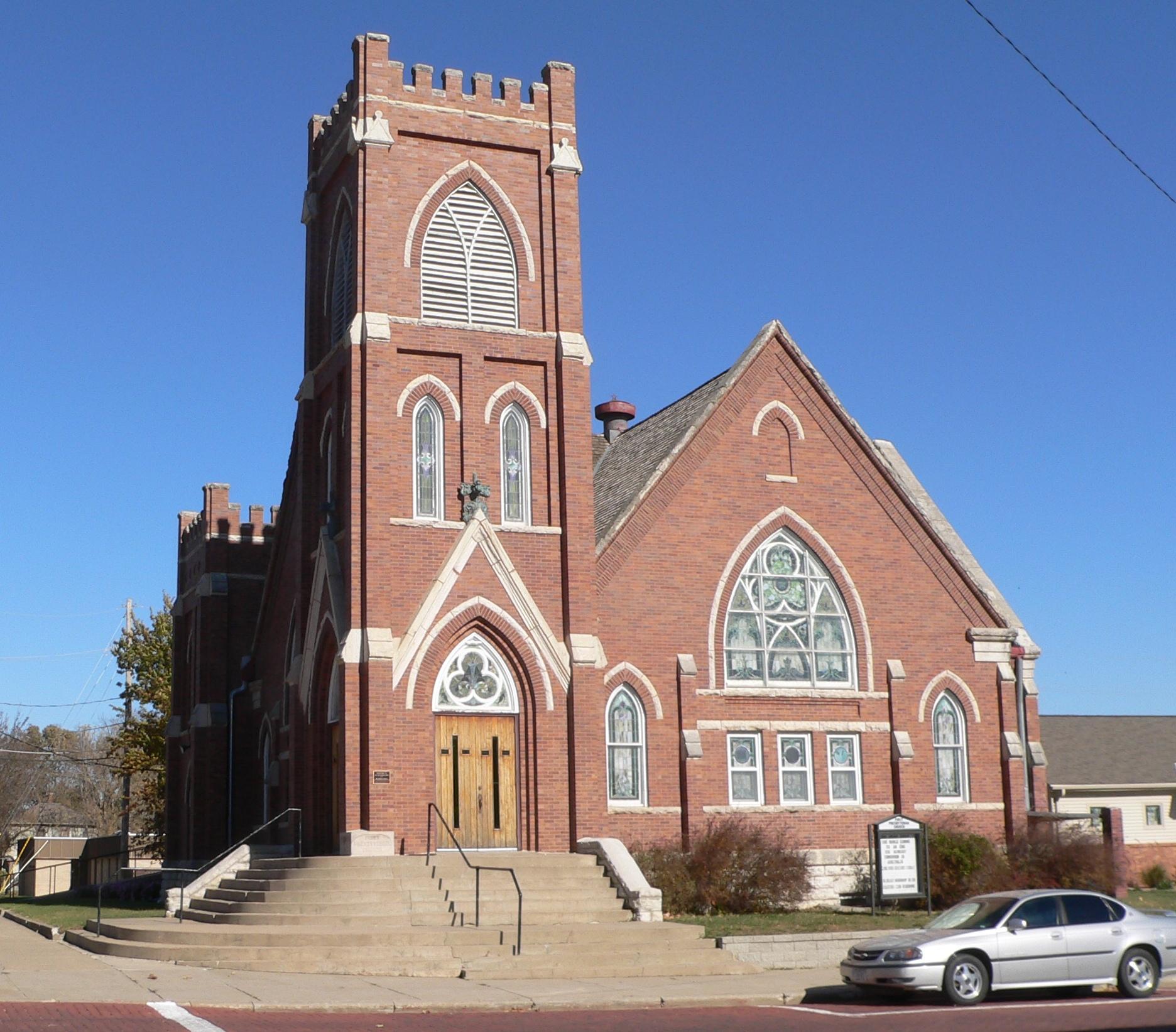 First Presbyterian Church in Auburn, Nebraska: seen from the southwest.